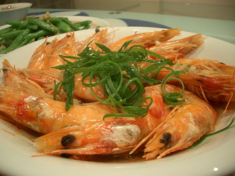 One of the variation of steamed prawns made with shaoxing wine.